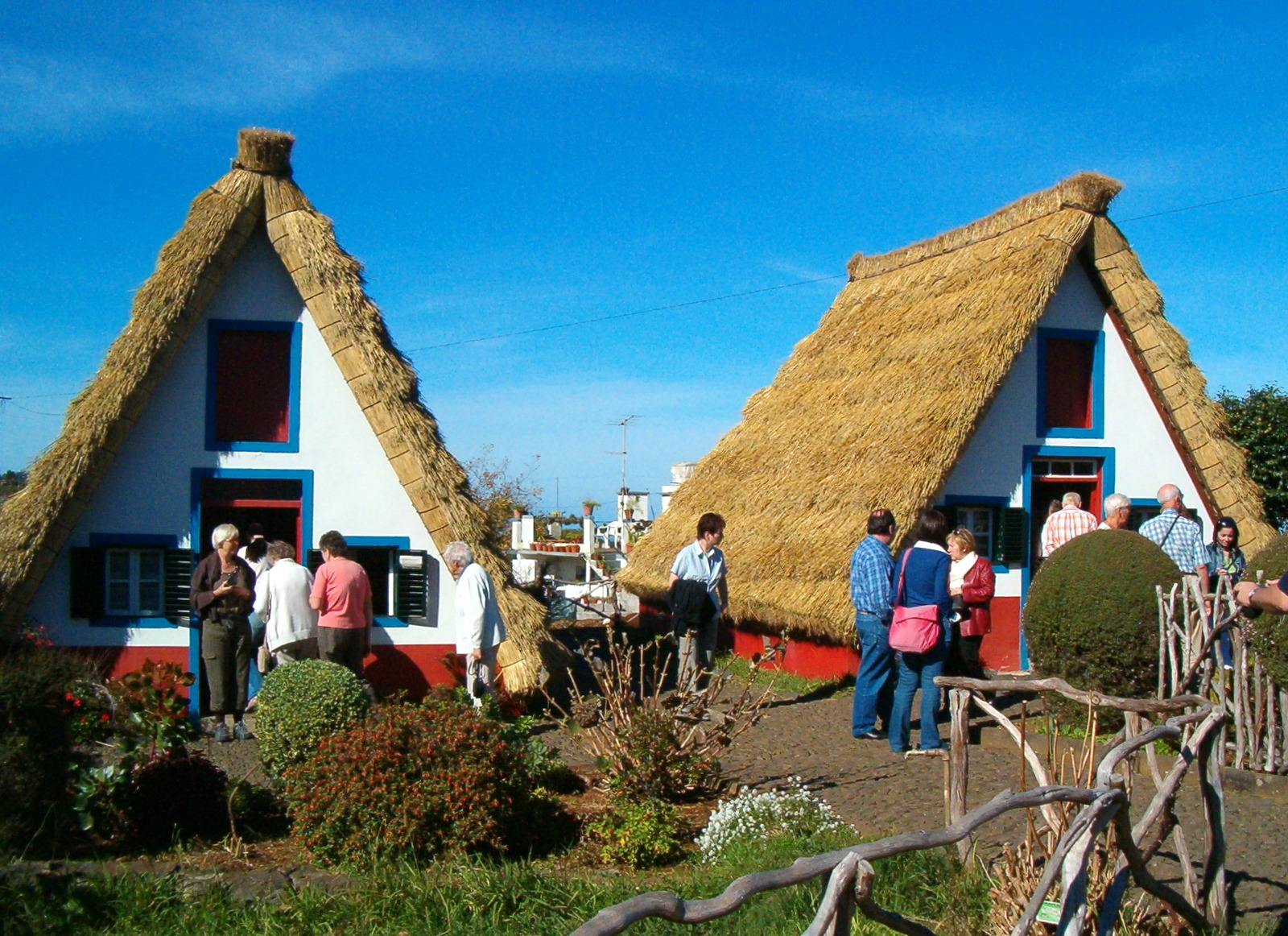 Houses in Santana, Madeira